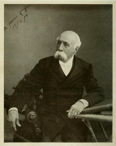 The Italian politician Francesco Crispi (1818-1901)